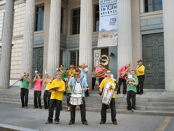 Fun Orchestra De Kamgoarn Klösse